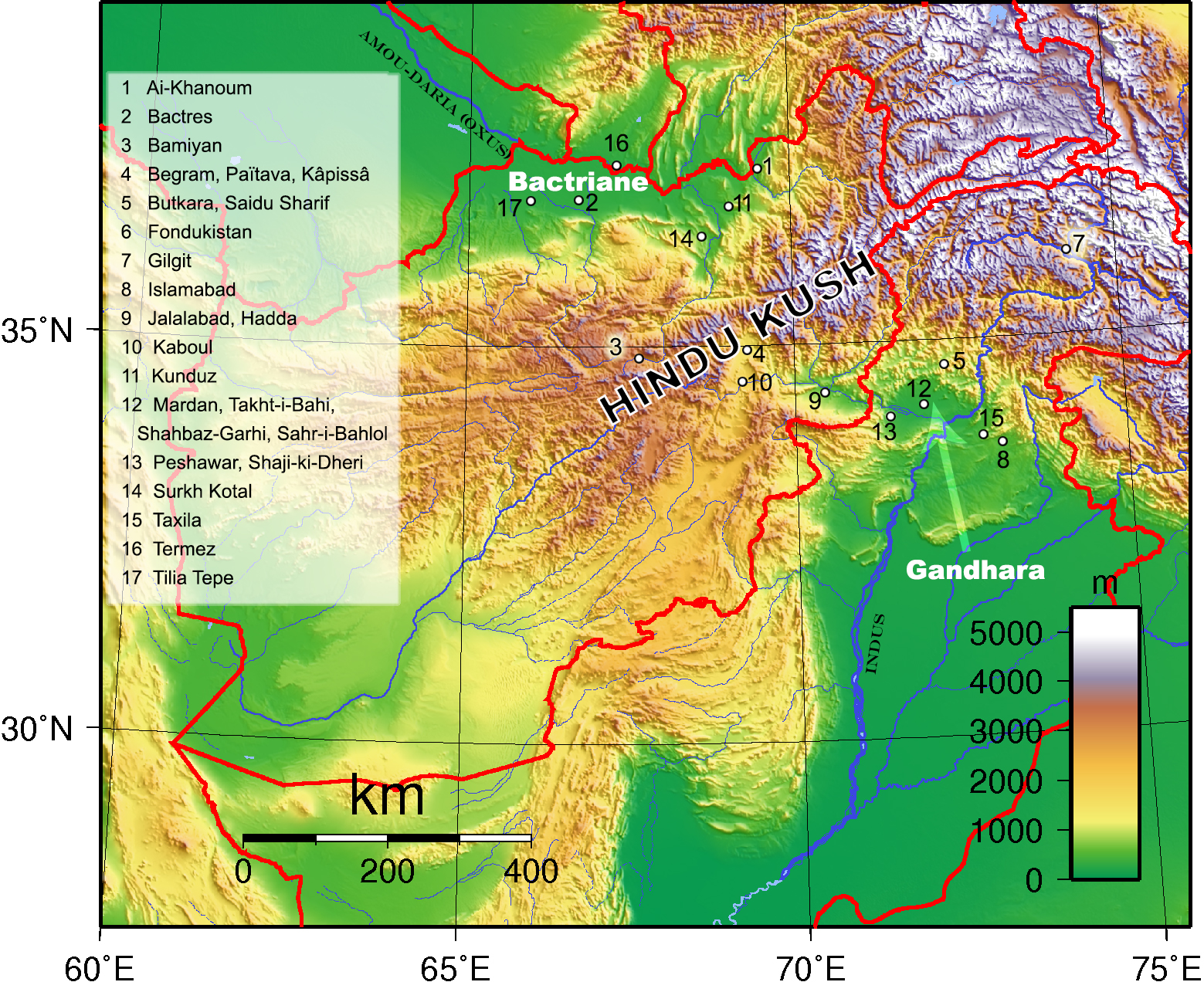 Topographic map of Bactria and Gandhara.